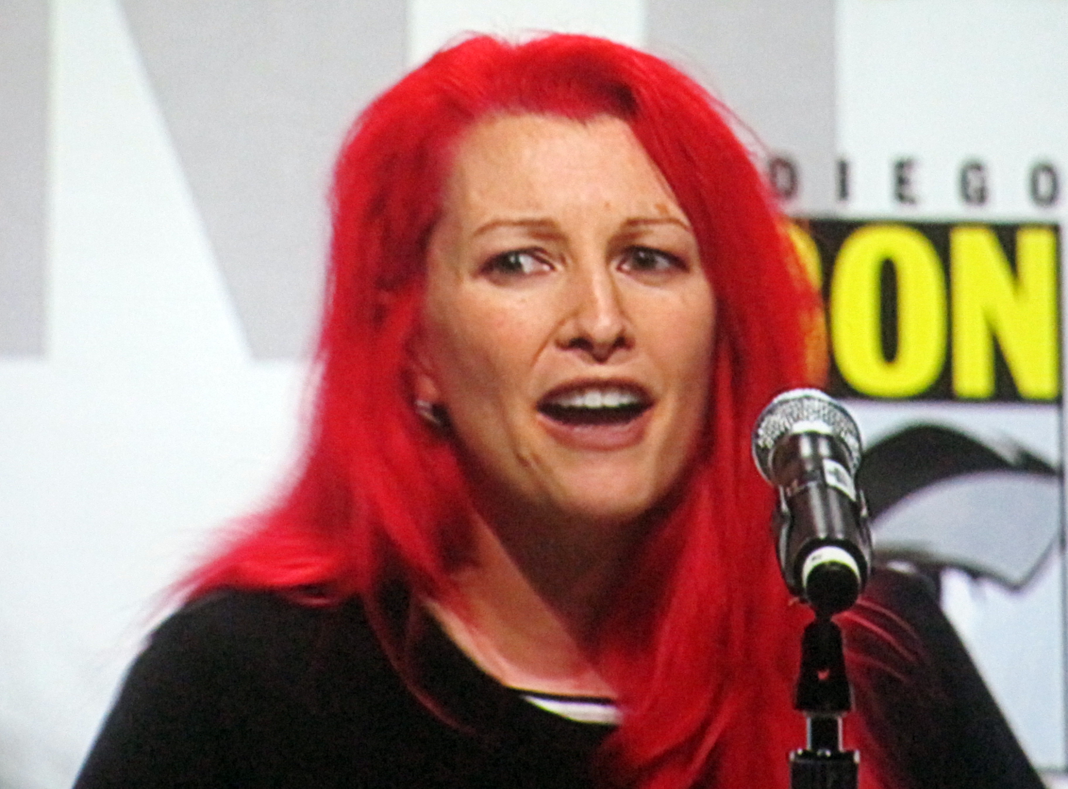 Screenwriter Jane Goldman participating in the Kick-Ass film panel at WonderCon 2010.